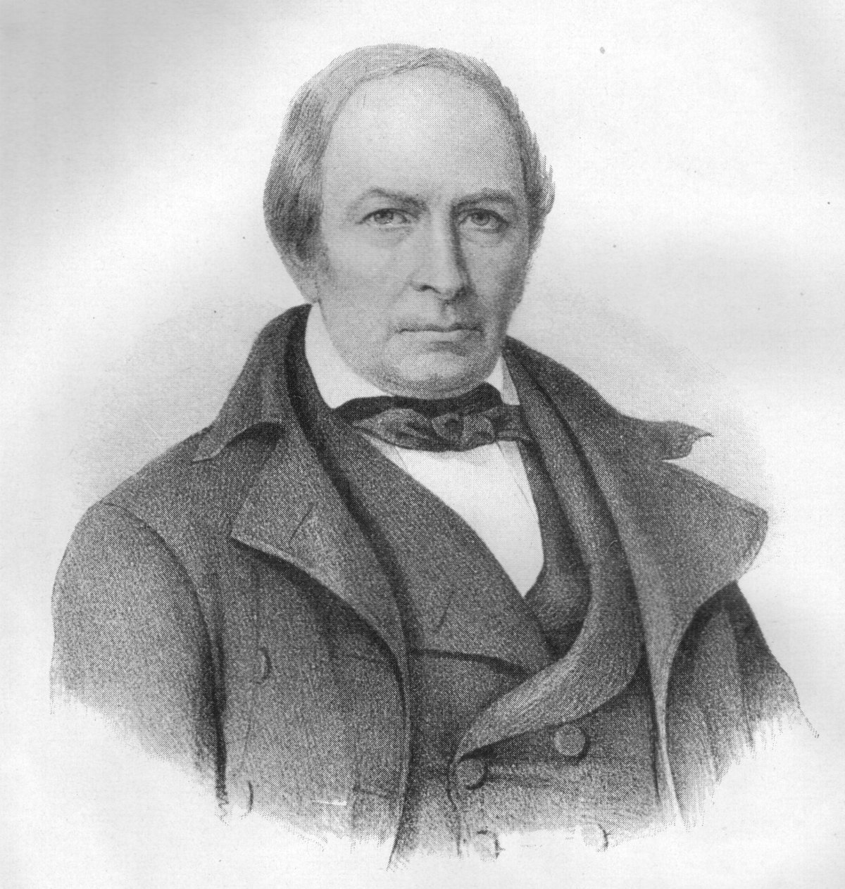 Litography of author Erik Gustaf Geijer from the 1840s.